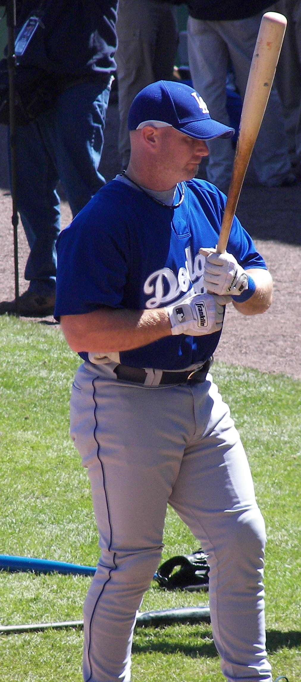 Los Angeles Dodgers catcher Kelly Stinnett before a Dodgers/Boston Red Sox spring training game at City of Palms Park in Fort Myers, Florida.